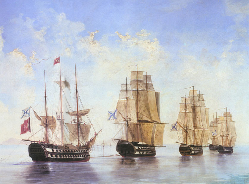 Aleksey Bogolyubov (1824-96). After the Battle of Athos. June 19, en:1807.